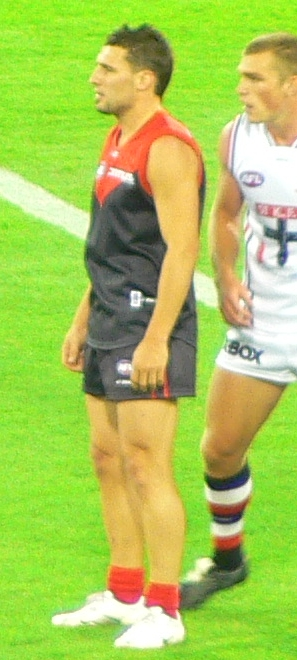 Russell Robertson, Aussie Rules player